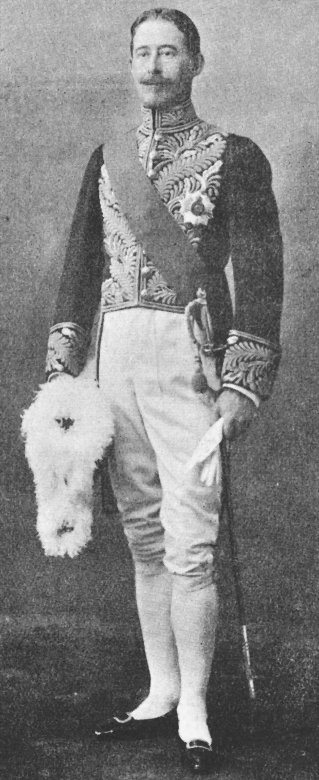 Lawrence Dundas, Lord Ronalshay, as Governor of Bengal an office he held 1917-22.